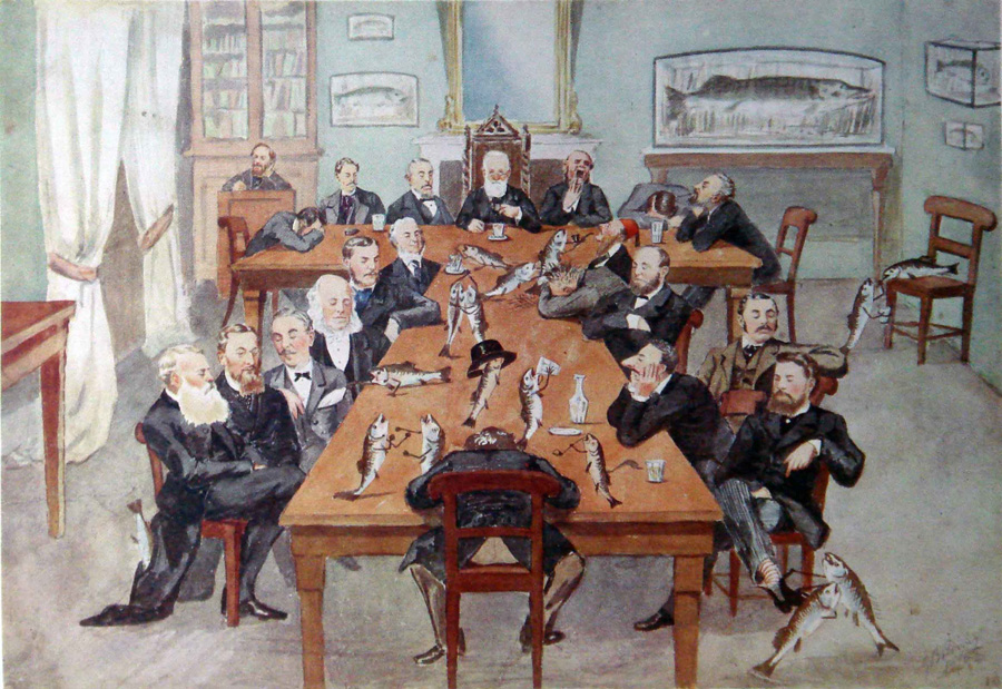 A meeting of the Piscatorial Society. From a watercolour drawing in the Society's scrapbook dated 1878.